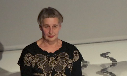 Hanna Schimek (best theatrical scenery in "Shirley – Visions of Reality"), Austrian Film Awards 2014 (Grafenegg, Austria).